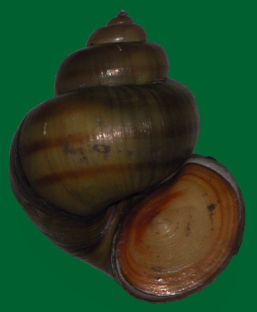 Viviparus contectus, Adult specimen with operculum, Height: 34.5 mm; Collected alive in ditch in the 'Eempolder', Province of Utrecht, The Netherlands, 1972.